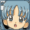 Demonstration picture for use in articles about Internet forums. You can also use this picture as your own avatar if you want to promote Wikipedia on a forum!